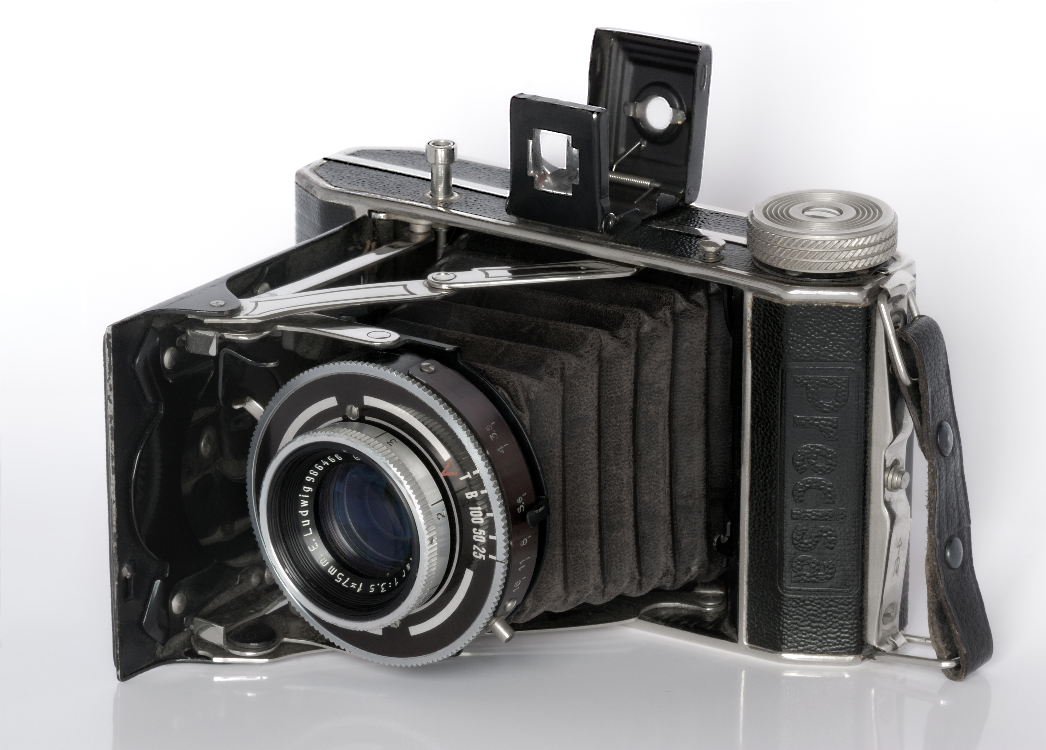 This image shows a folding bellow roll film camera of the make Beier Precise, manufactured around 1952. It has a Meritar lens (75 mm / f3.5) and a Binor shutter.